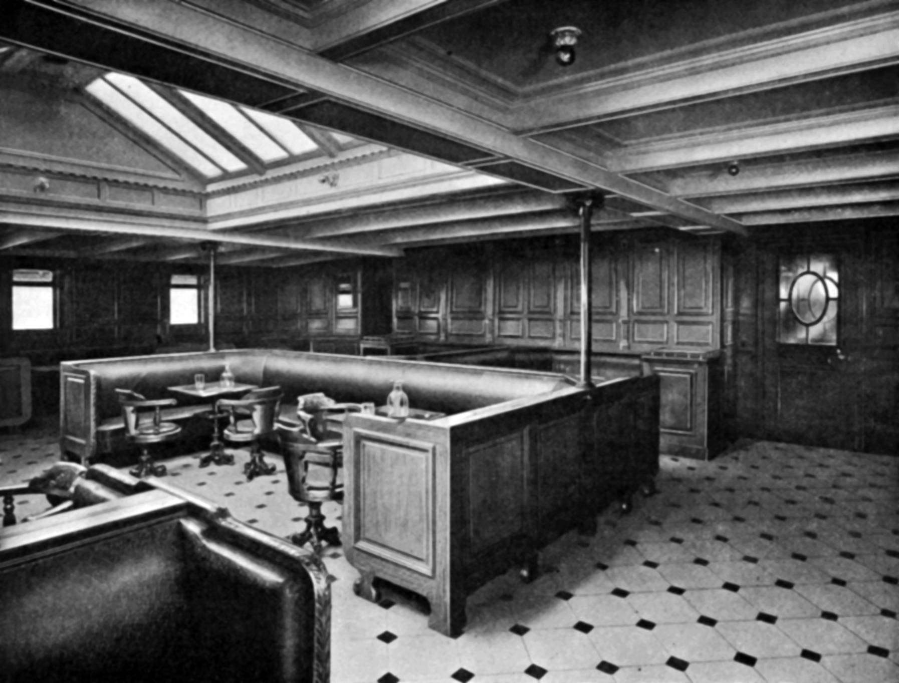 First-class smoking room on SS Finland. Caption cropped from image reads: "Smoke Room — Second Class — S. S. Finland".